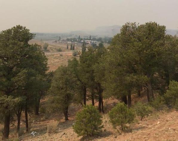 View of the Wood Springs 2 Fire from Navajo, NM